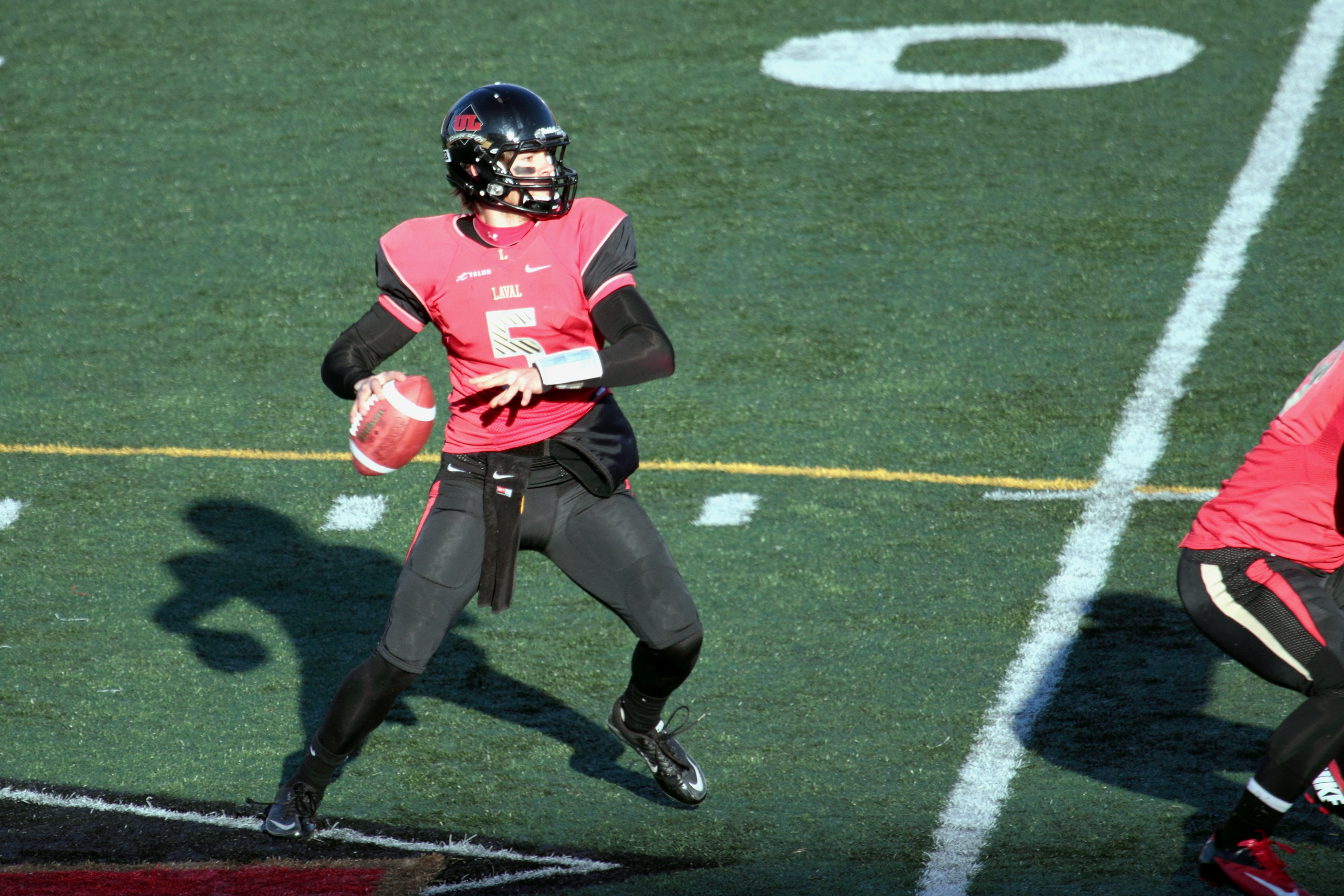 Tristan Grenon, Rouge et Or Quarterback of Université Laval.